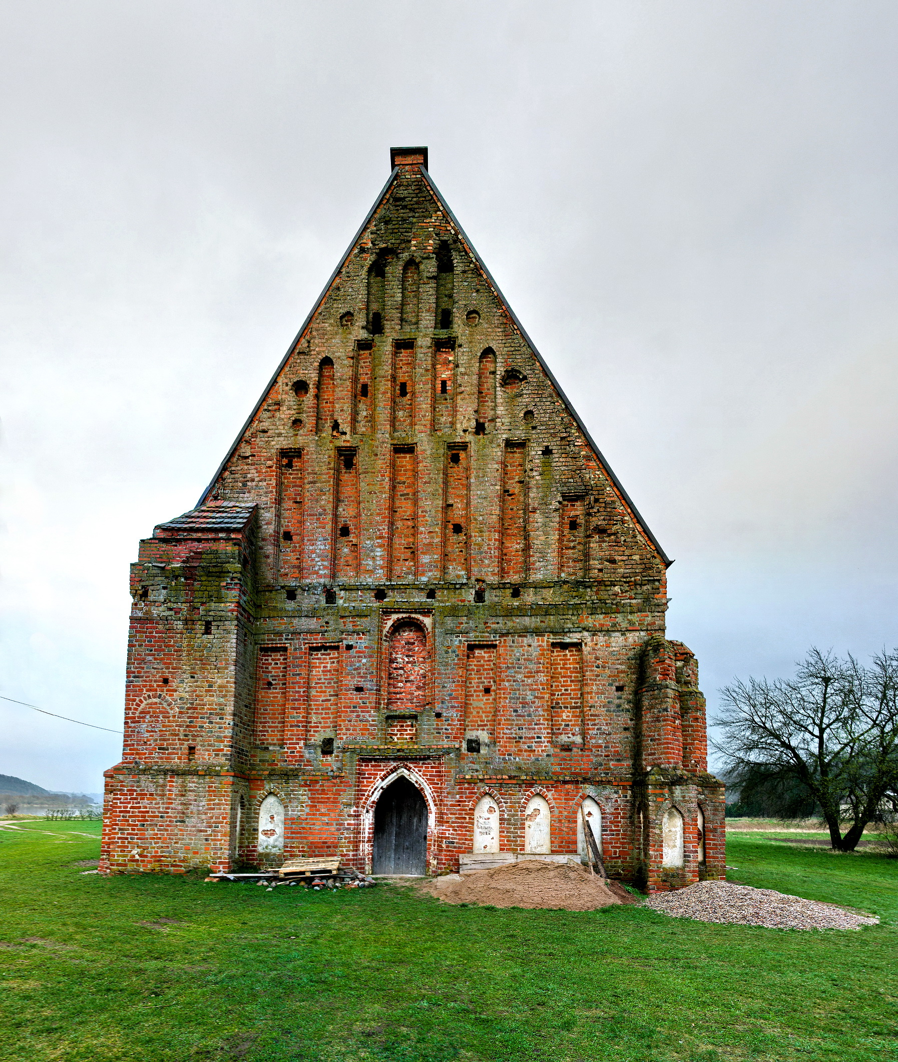 Zapyškis church, Lithuania